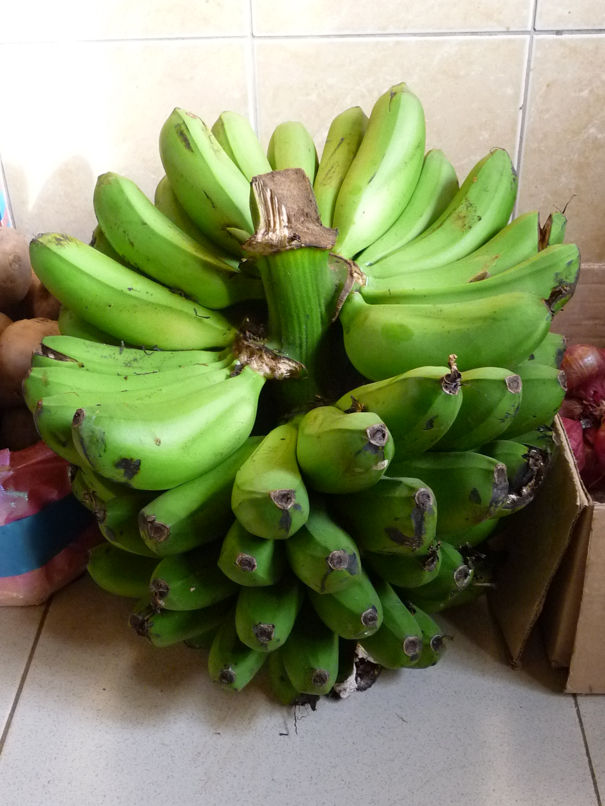 This is Matoke, green banana, or Plantain. It is traditional stock food in East Africa, e.g. Uganda. Quantity shown: lower half of banana fruit. It is peeled and cooked, sometimes smashed. Served with souce like tomatoe, geenuts (ground peanut incl. their yellow peanut peels), and peas, beans, or rice or irish potatoes, or sweet potatoes or yams. As unripe bananas they are white after peel and need to be cooked. Then they turn yellow and can be eaten. Taste: unusual.